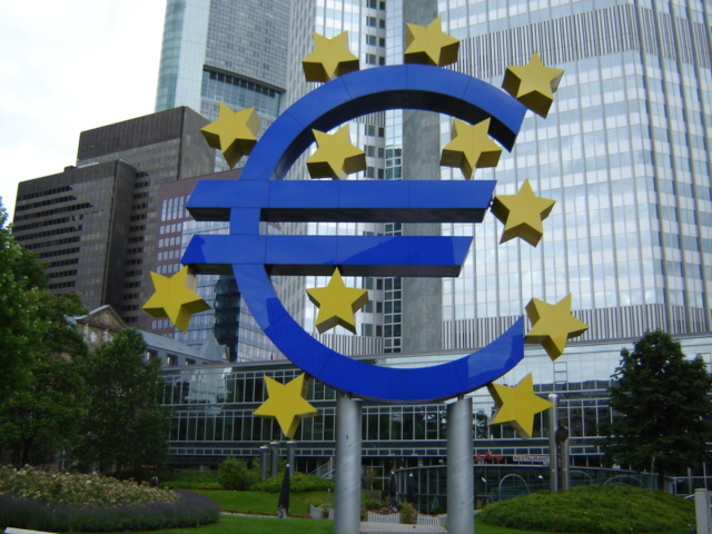 The EURO in front of the European Central Bank in Frankfurt